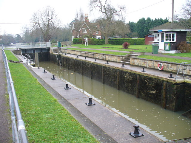 Shepperton Lock. On the Thames between Shepperton and its four islands, which all face Weybridge or Hamm Court, Addlestone. The lock-keeper's hut is on the right. A ferry to Weybridge and teashop are within a hundred yards.